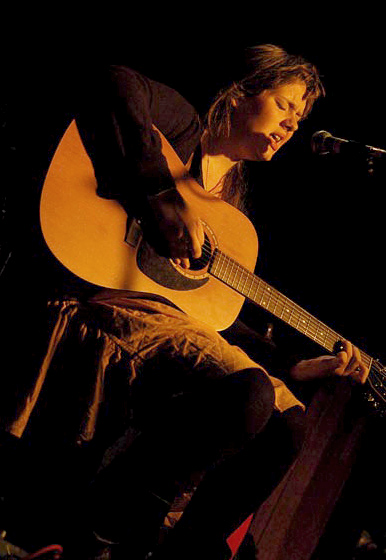 English singer Adele performing at the Luminaire in Kilburn, London.